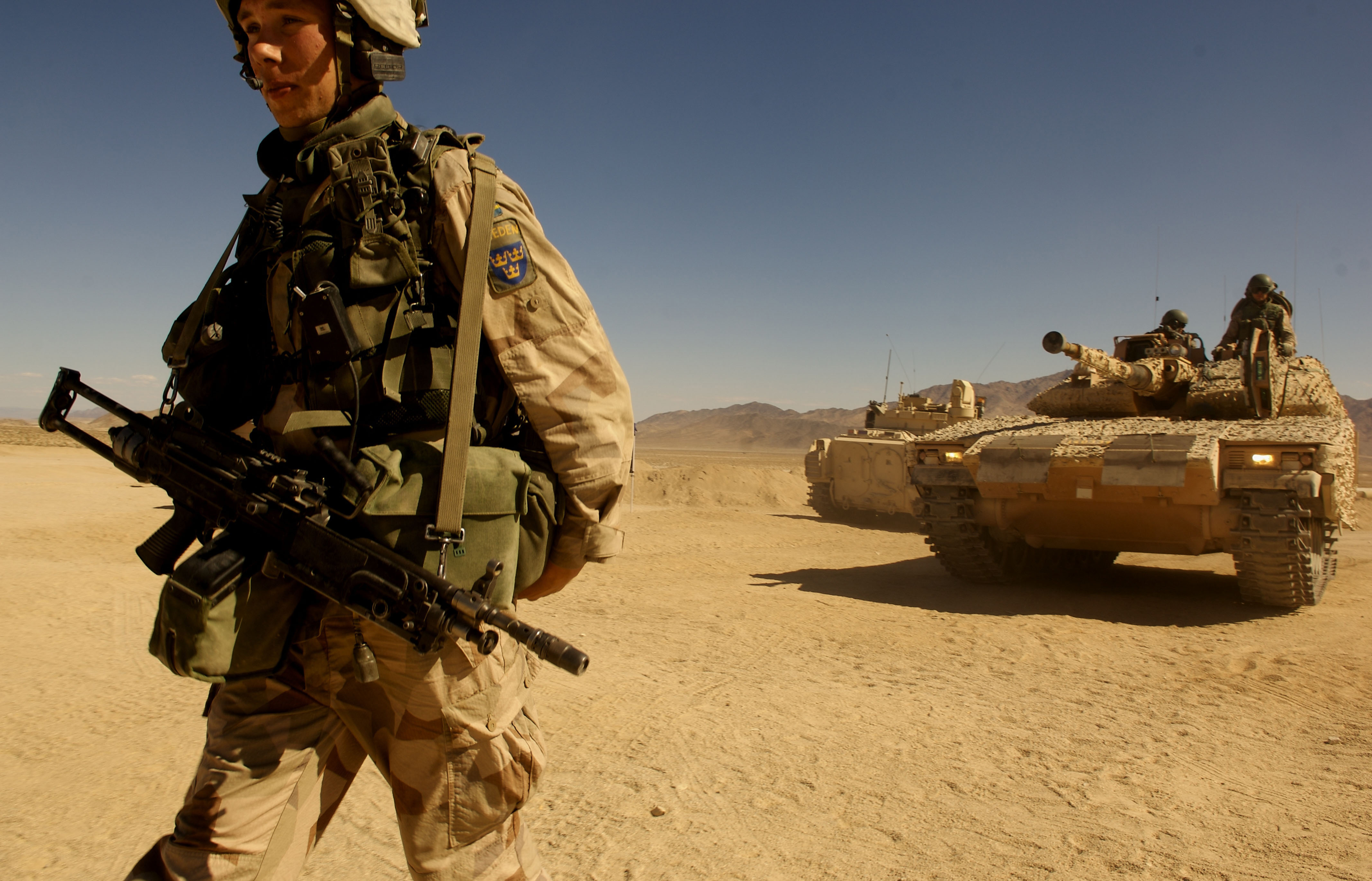 Swedish army Pvt. Alexander Graje leads a CV90-40C APC out of a simulated forward deployed location at the National Training Center in Fort Irwin, Calif., Sept. 12, 2007, during exercise Bold Quest. The coalition exercise is testing new communication technology that identifies friendly forces and enemy targets. DoD photo by Staff Sgt. Samuel Rogers, U.S. Air Force. (Released)